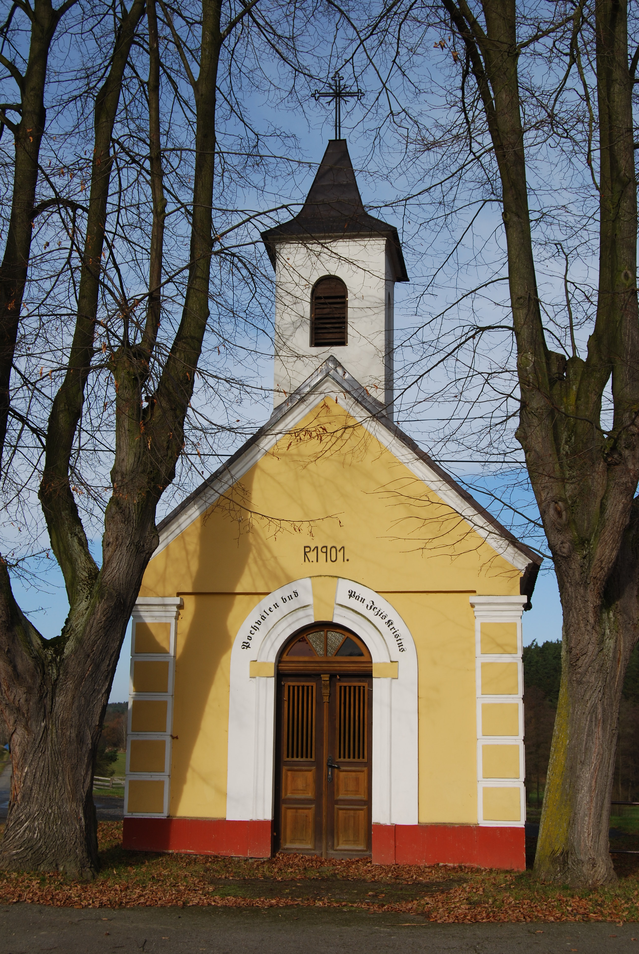 Čenkov u Bechyně village in České Budějovice District, Czech Republic. Chapel.